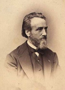 Edvard Mads Ebbe Helsted (1816-1900), Danish violinist, composer, and conductor